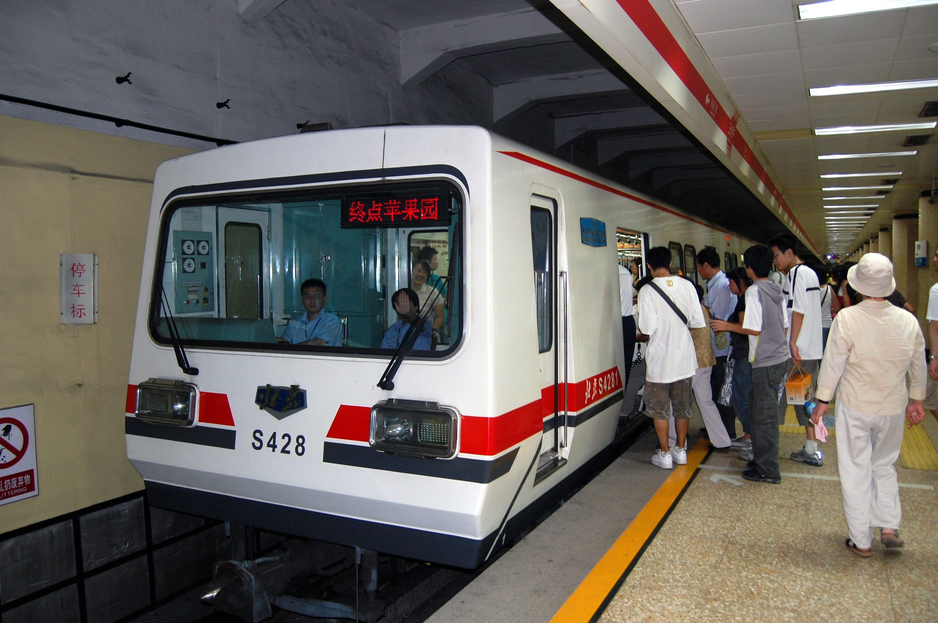 Beijing Subway Wangfujing station